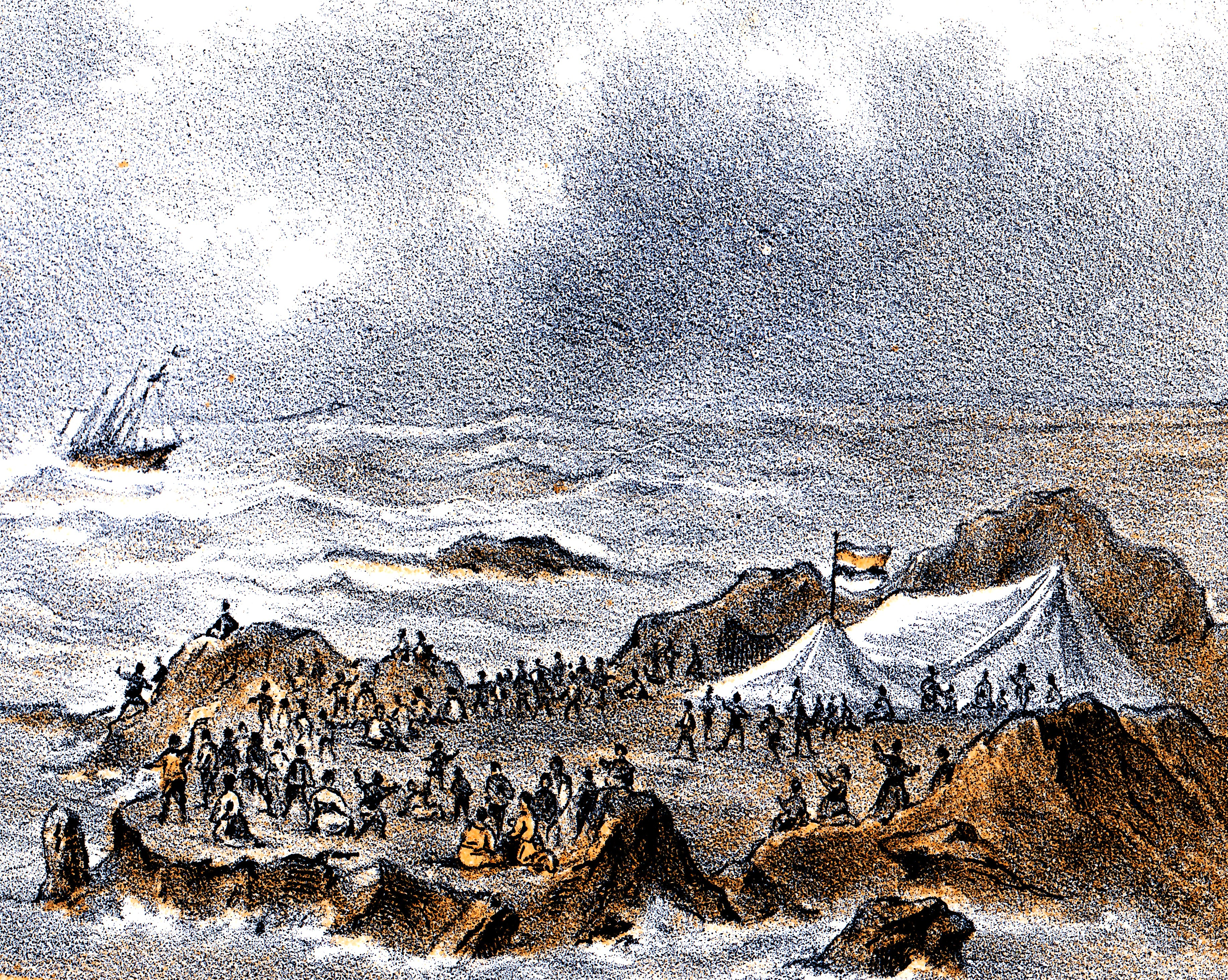 schipbreuk op de Lucipara-eilanden